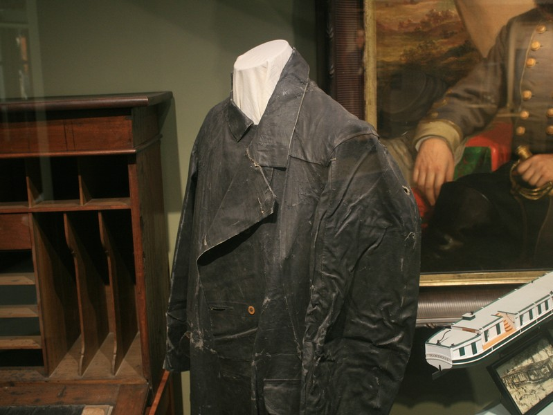 Stonewall Jackson's raincoat, which was on him in the of wounding. Bullet-hole is visible